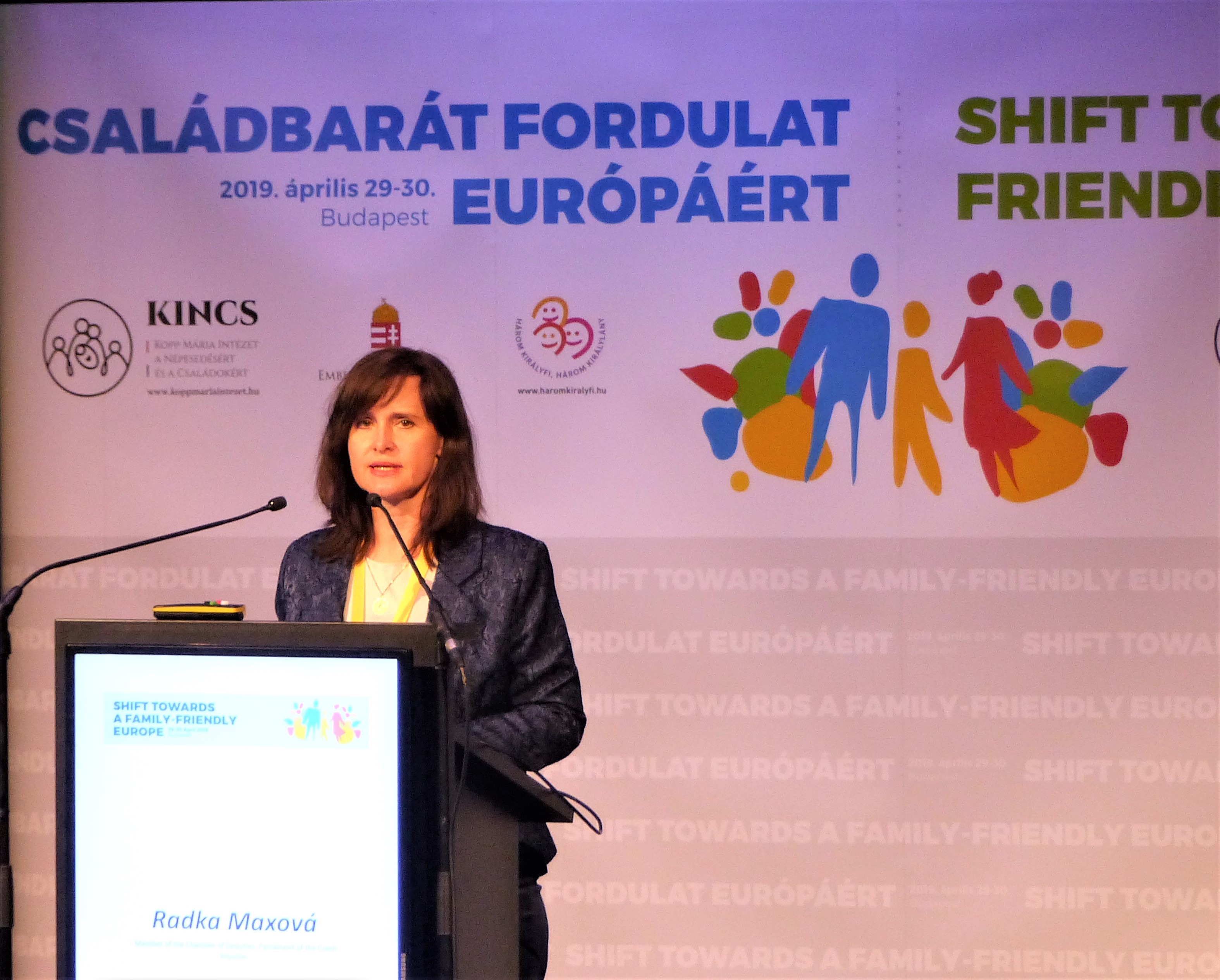 Shift towards a family-friendly Europe. Taken on the 29th of April, 2019. Várkert Bazár, Central Europe.